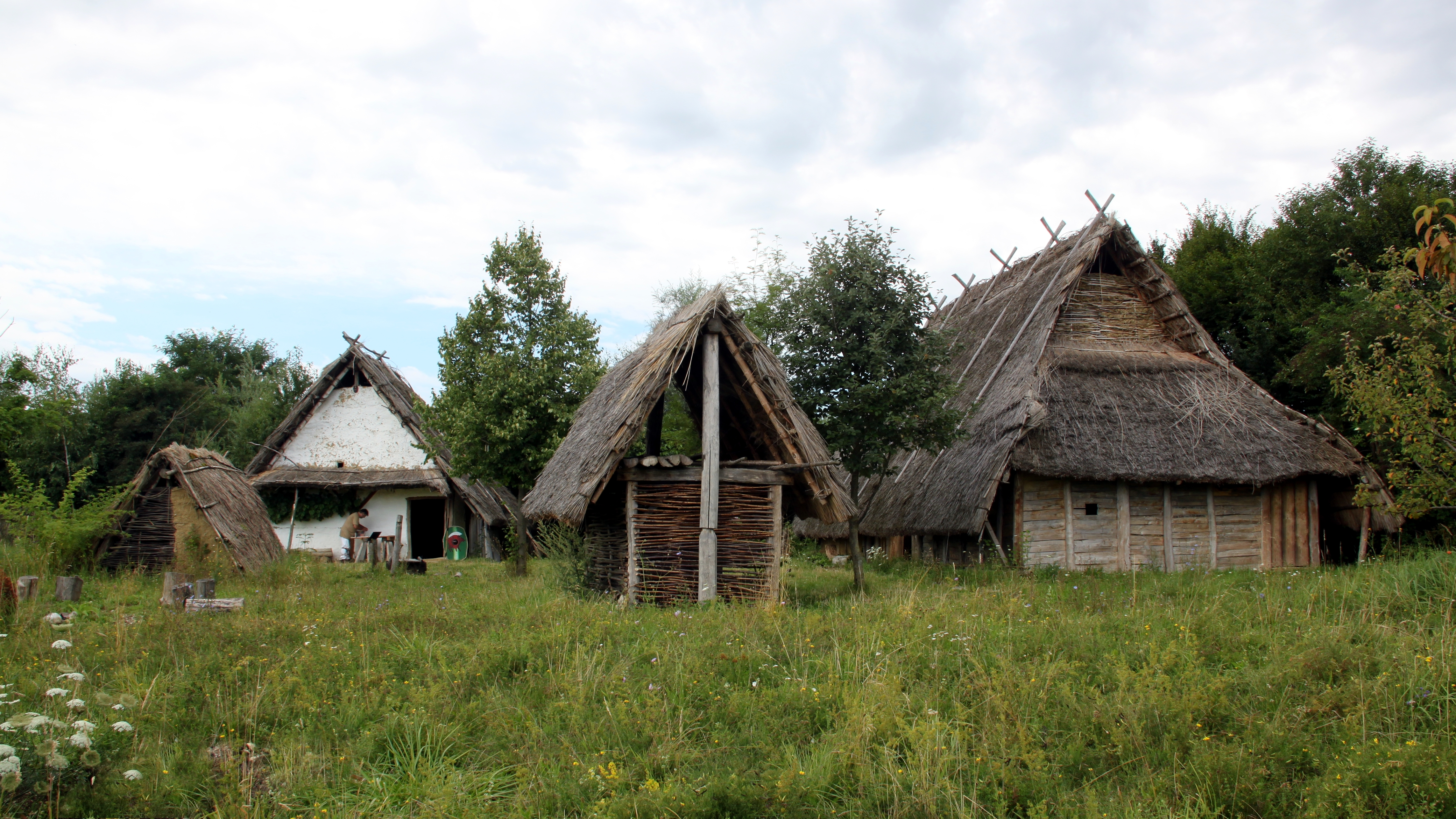 Bajuwarenhof Kirchheim: pit-house #1, outbuilding, pit-house #2 and longhouse.